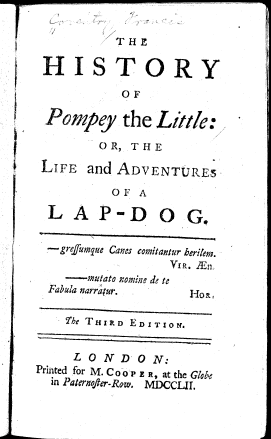 Title from Francis Coventry: The History of Pompey the Little; or, The Life and Adventures of a Lap-Dog, London 1751.